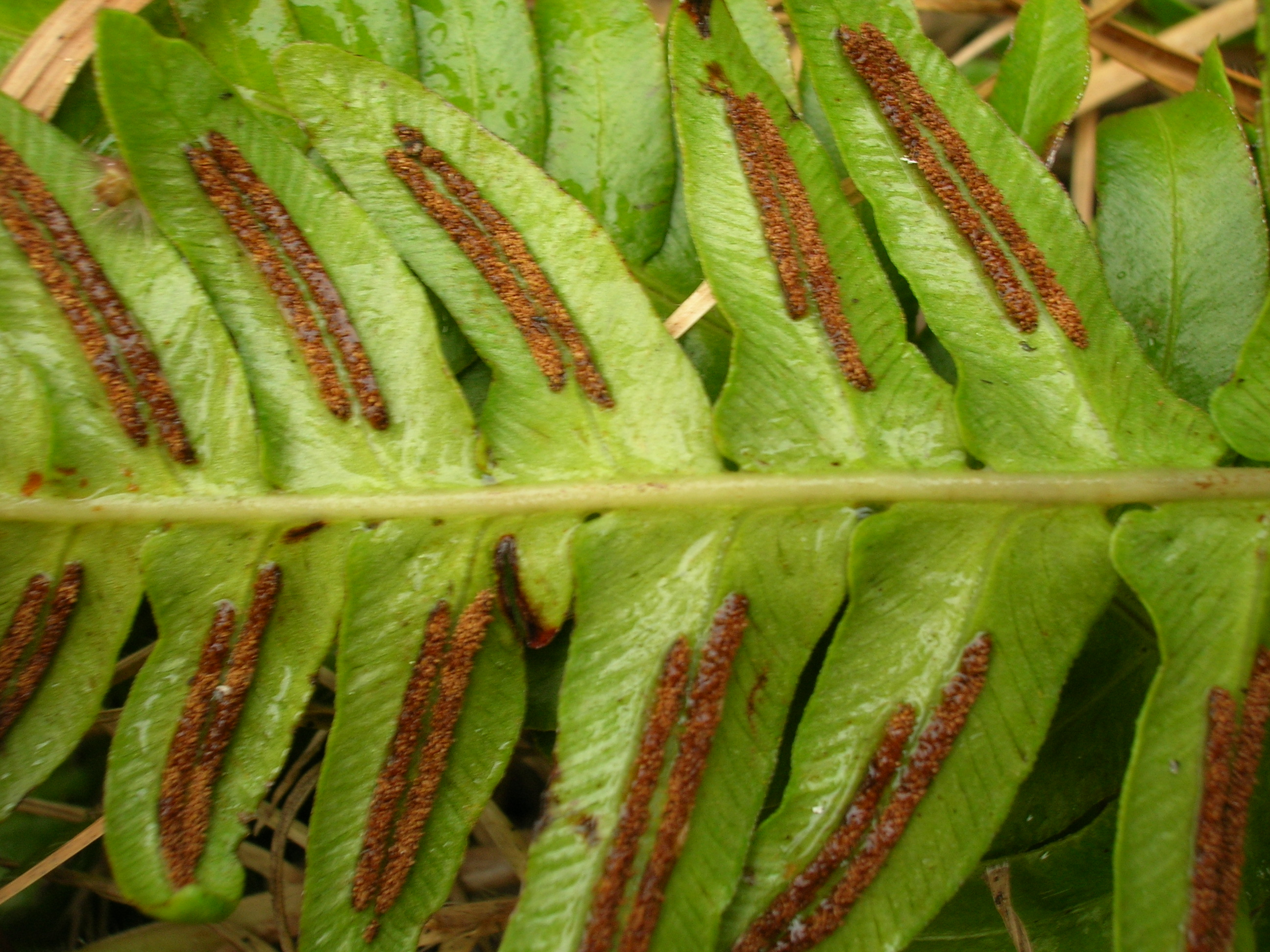 Blechnum appendiculatum (sori). Location: Maui, Haleakala Ranch